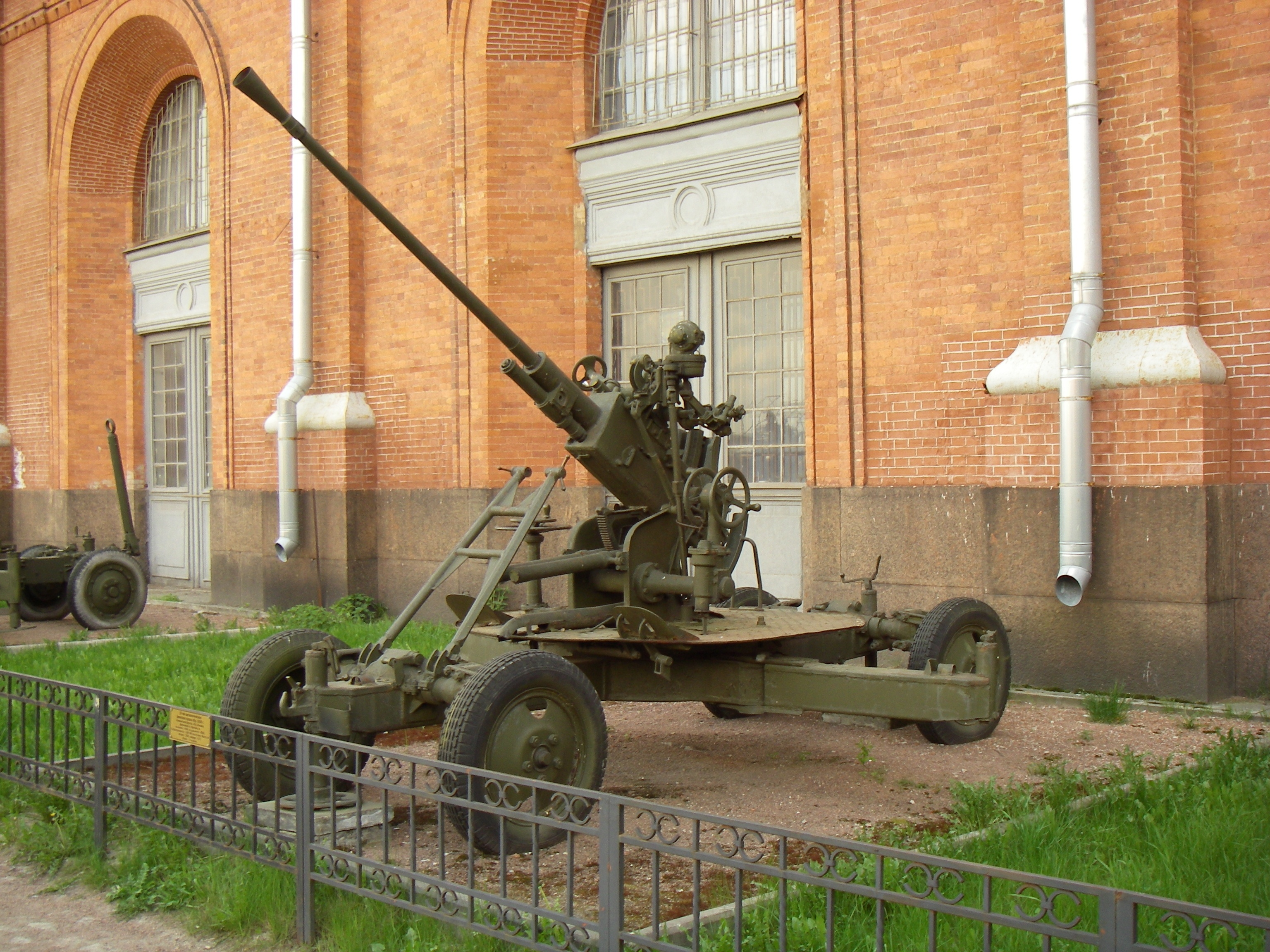 37-mm automatic anti-aircraft gun 61-K in Saint Petersburg Artillery museum